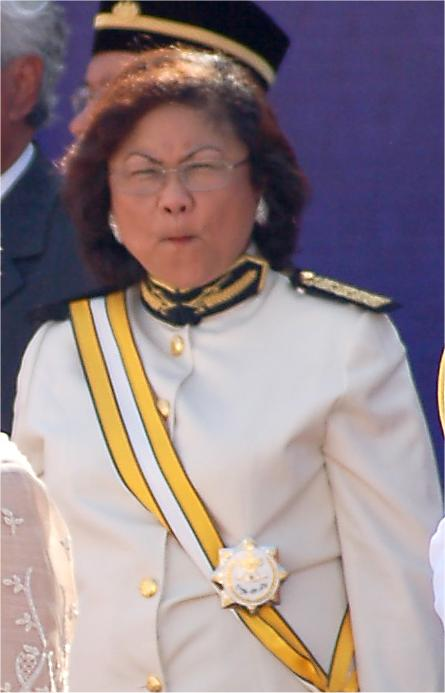 Rafidah Aziz: Former minister of Trade and Industry at the 50th Malaysian Mederka celebrations in Kuala Lumpur.